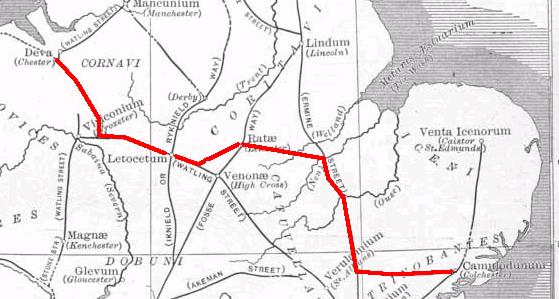 From :Image:Romanbritain.jpg